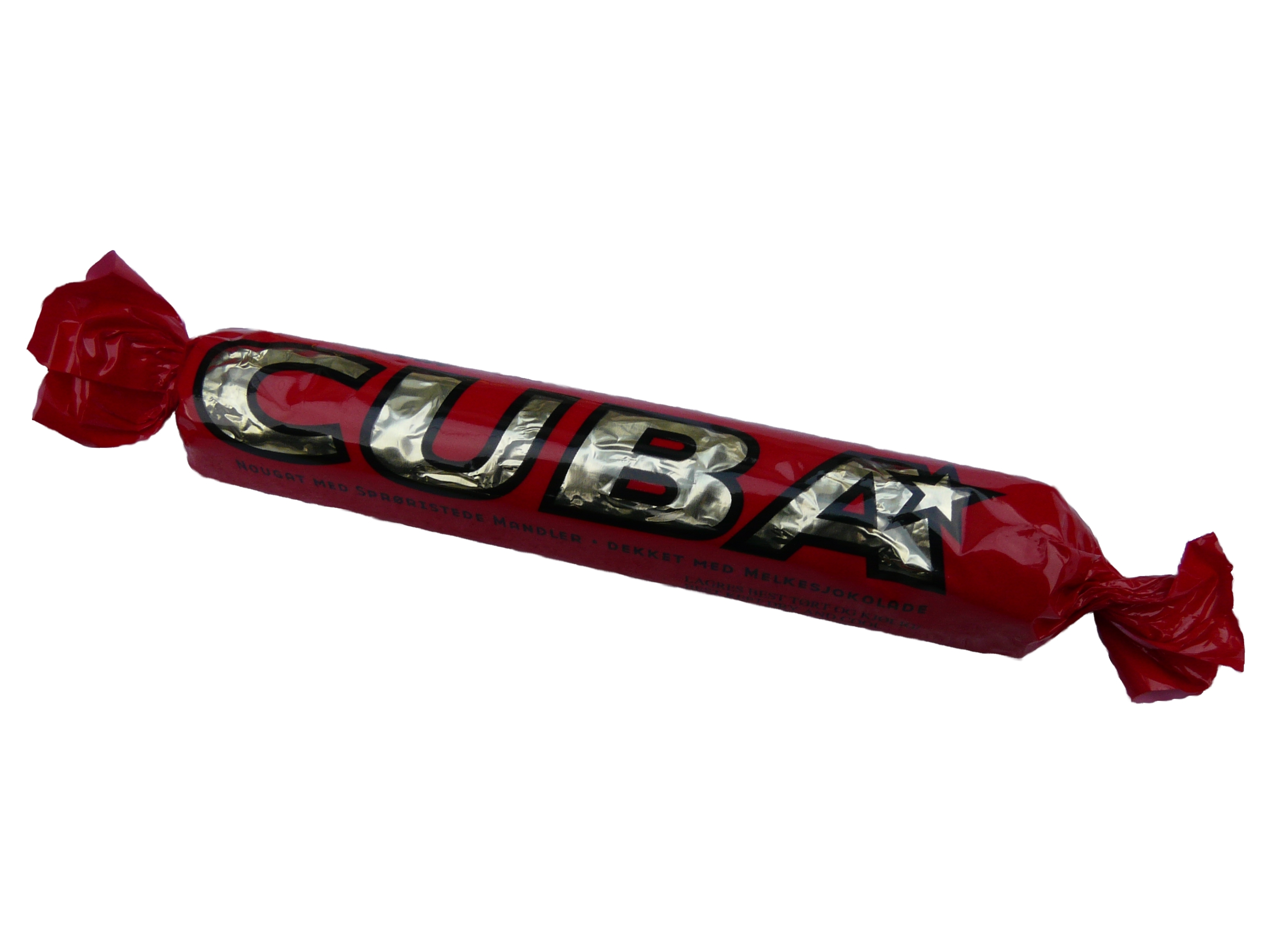 Image of a "Cuba"-chocolate by Nidar.